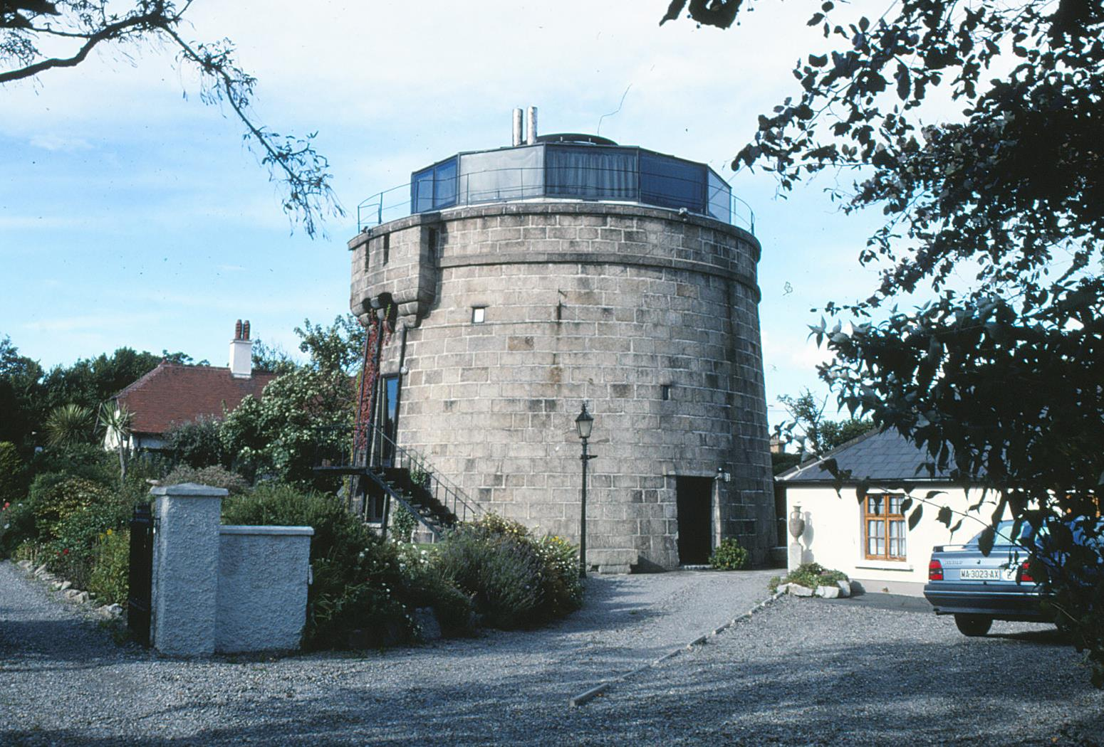 Martello Tower in Bray, County Wicklow, Ireland. It was built in 1804-05 and later was converted to use as a private residence. for more historical background. U2 singer Bono and his wife Ali Hewson lived in this tower during the 1980s and he wrote their 1984 song "Promenade" about it.